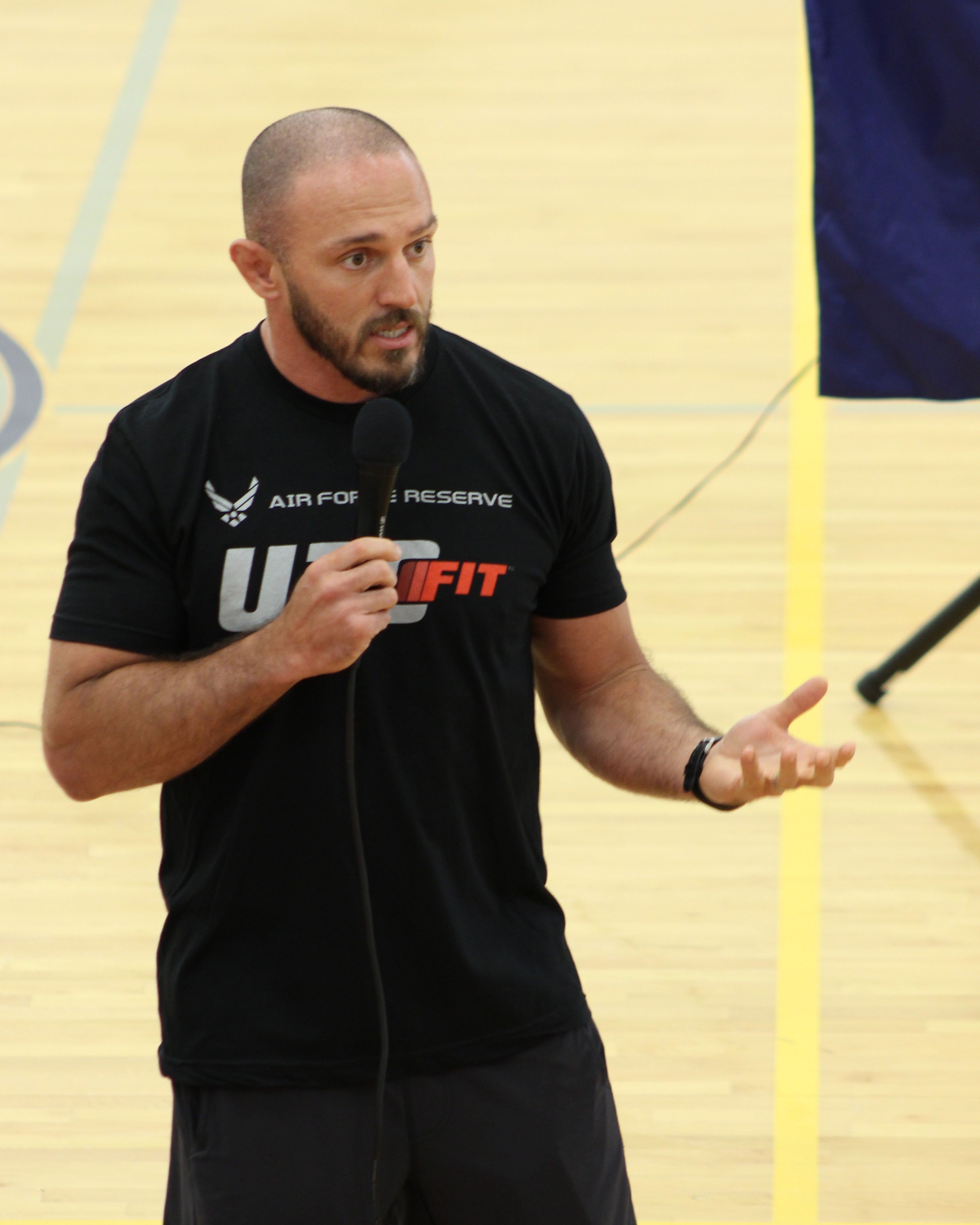 Mike Dolce, Ultimate Fighting Championship coach, talks to Team Dover Airmen and civilian personnel on the importance of a healthy and active lifestyle June 26, 2014, at the fitness center on Dover Air Force Base, Del. Dolce visited Dover AFB on a stop of the 2014 UFC Fit Tour (U.S. Air Force photo/Herbert E. Welday III)